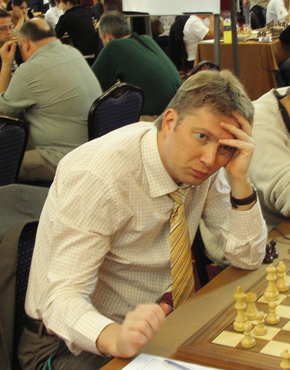 GM Alexei Shirov (Spain), Heraklion 2007